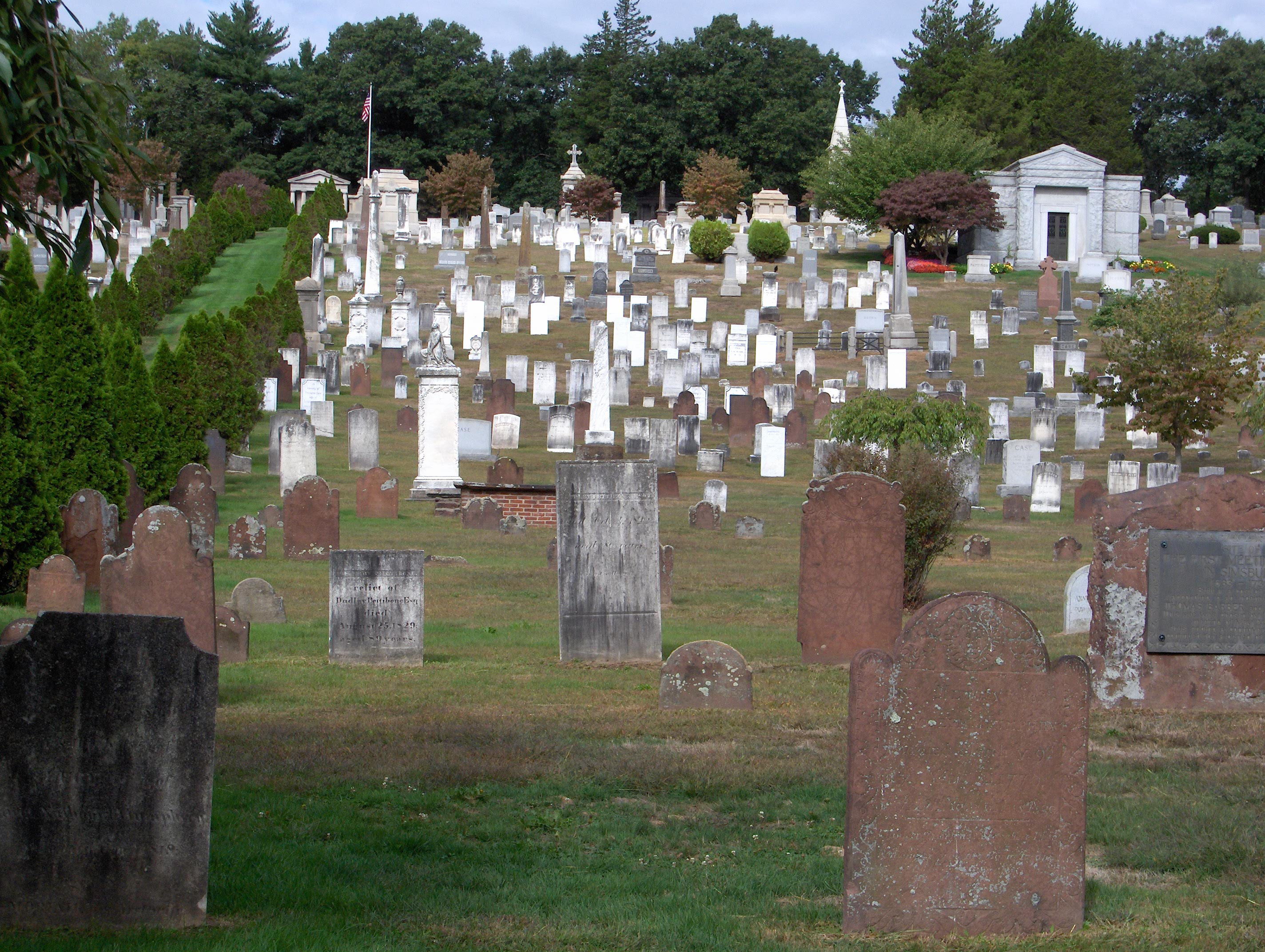 Simsbury Center Cemetery, 755 Hopmeadow Street, is the oldest resource in the Simsbury Center Historic District, dates to 1688.